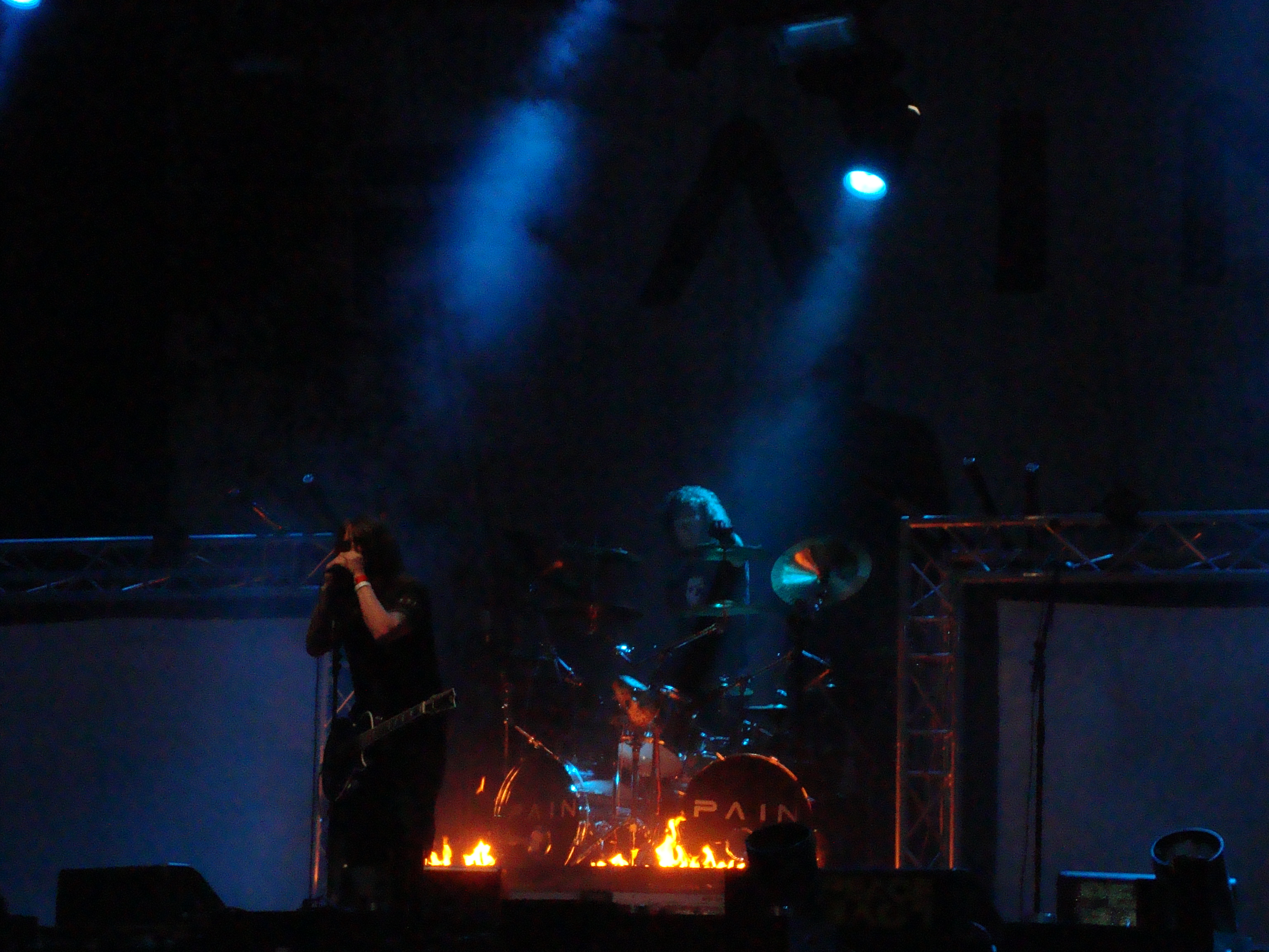 Pain (Peter Tägtgren) at Peace and Love festival, Borlänge, Sweden